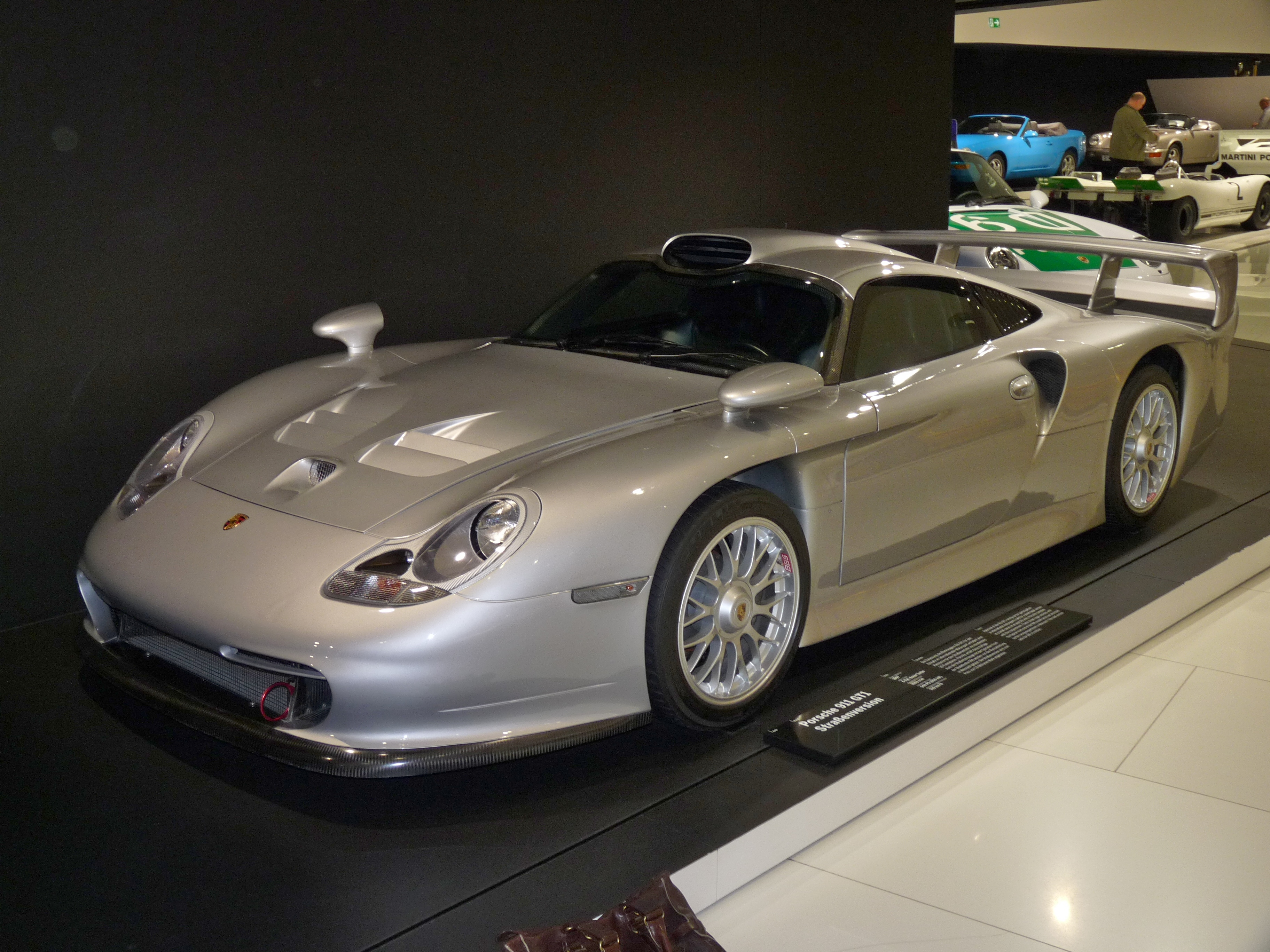 see filename for despcription - seen at Porsche Museum Native namePorsche-MuseumLocationStuttgartCoordinates48° 50′ 07″ N, 9° 09′ 06″ E Established1976 (old museum) 2009 (new museum)Web page control : Q328623 VIAF: 138511768 GND: 2087859-X SUDOC: 155641123 NKC: ko2015876799 institution QS:P195,Q328623